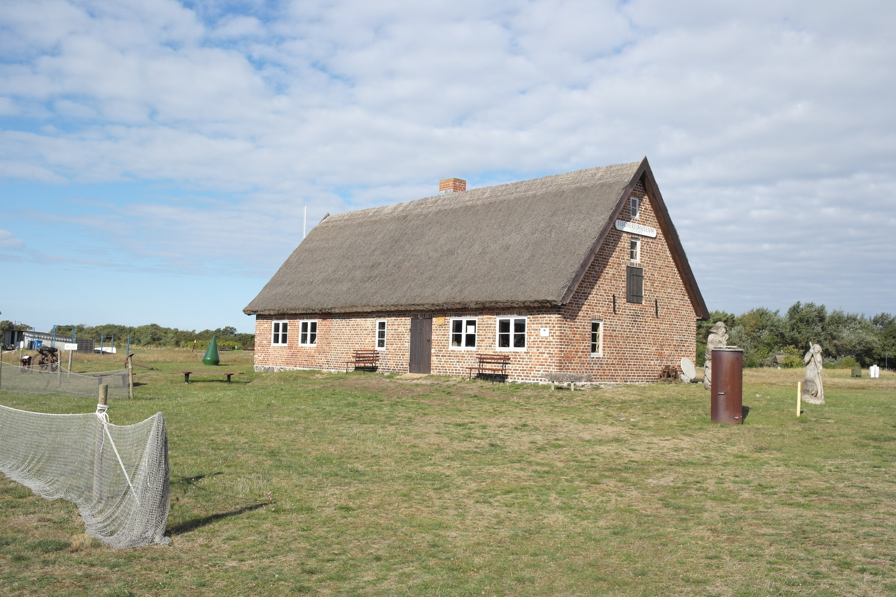 Neuendorf, former fishers' shed "lütt partie" (small party) in the street "Pluderberg", today fishery museum